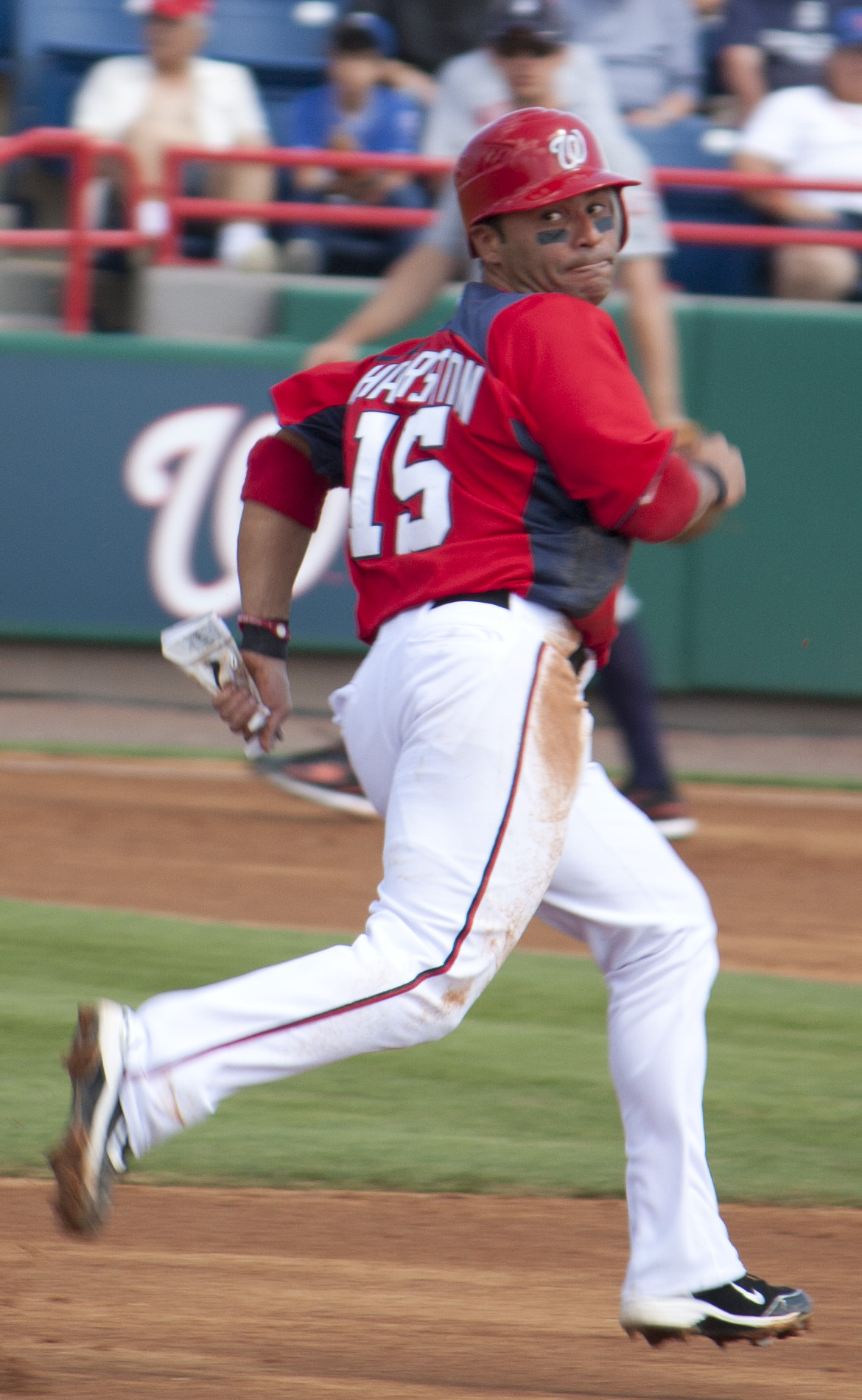 Jerry Hairston, Jr.